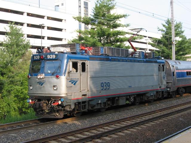 AEM-7AC #939 at BWI Rail Station in 2003